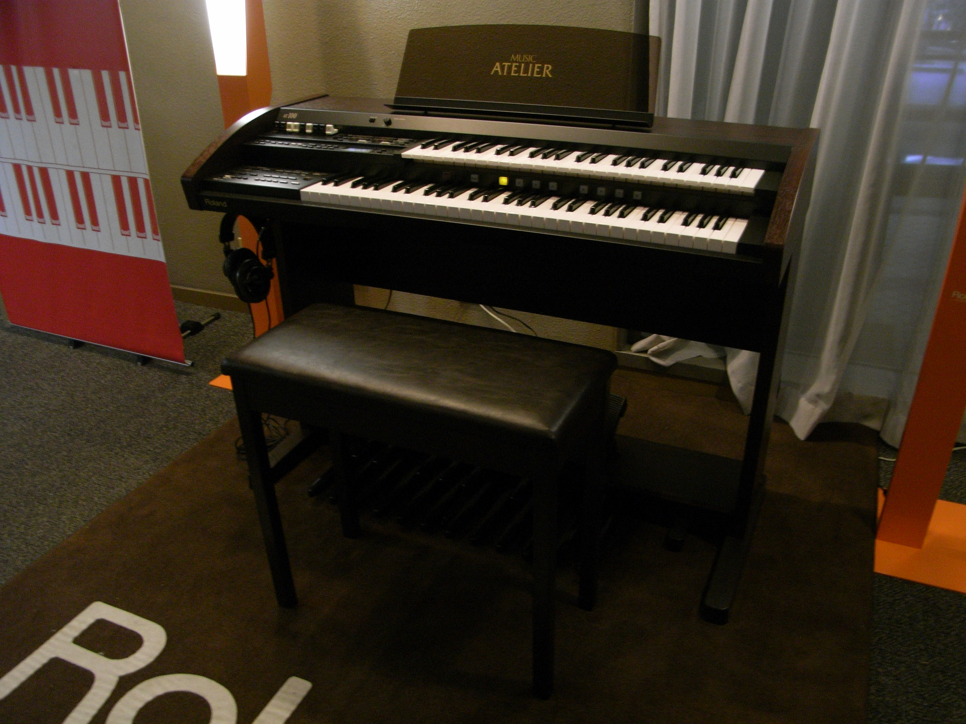 Roland Organ Music Atelier AT-100